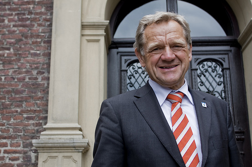 Willichs Bürgermeister Josef Heyes